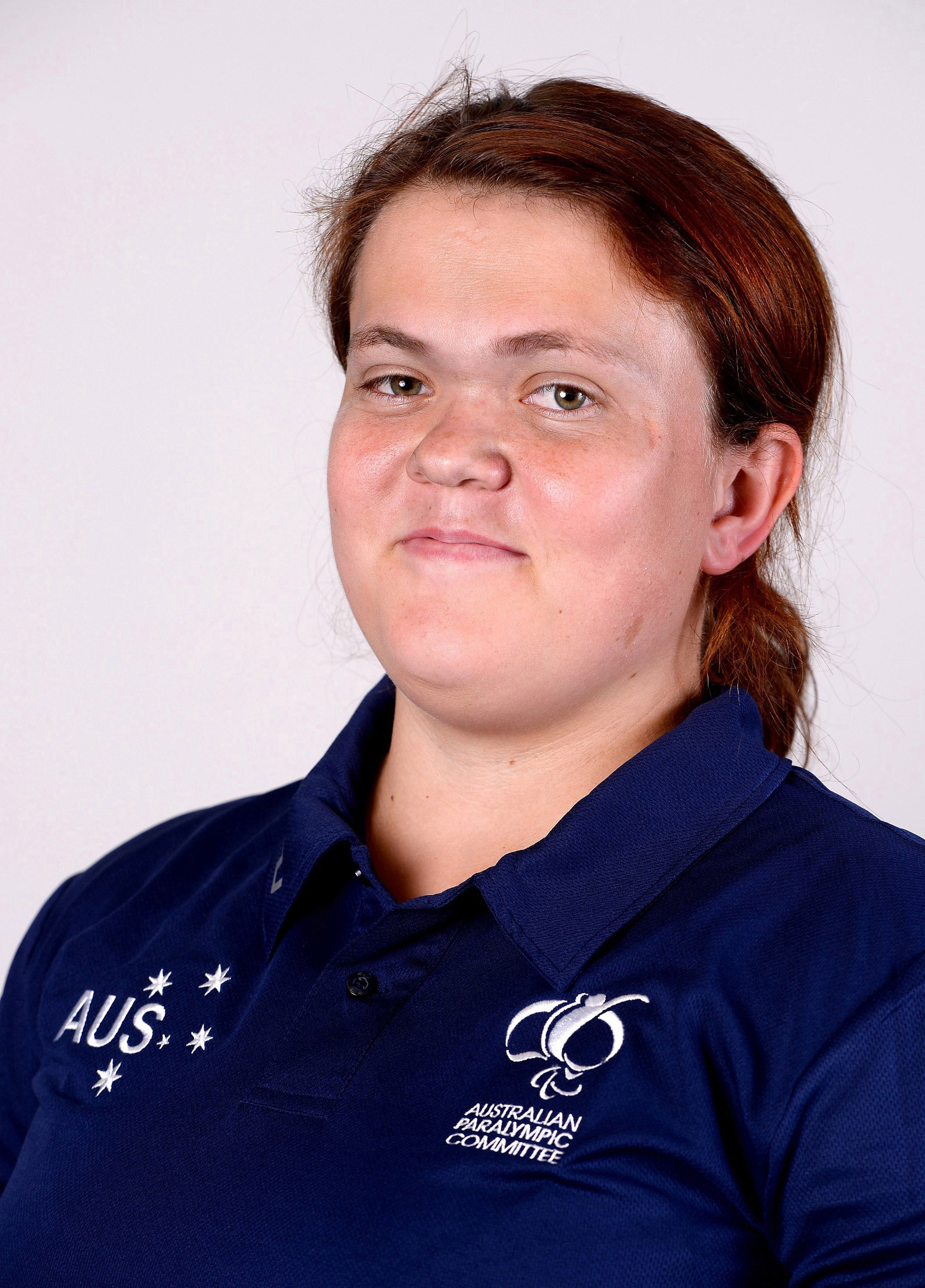 Portrait photograph of Claire Keefer taken at team processing session for shadow members of 2016 Australian Paralympic team